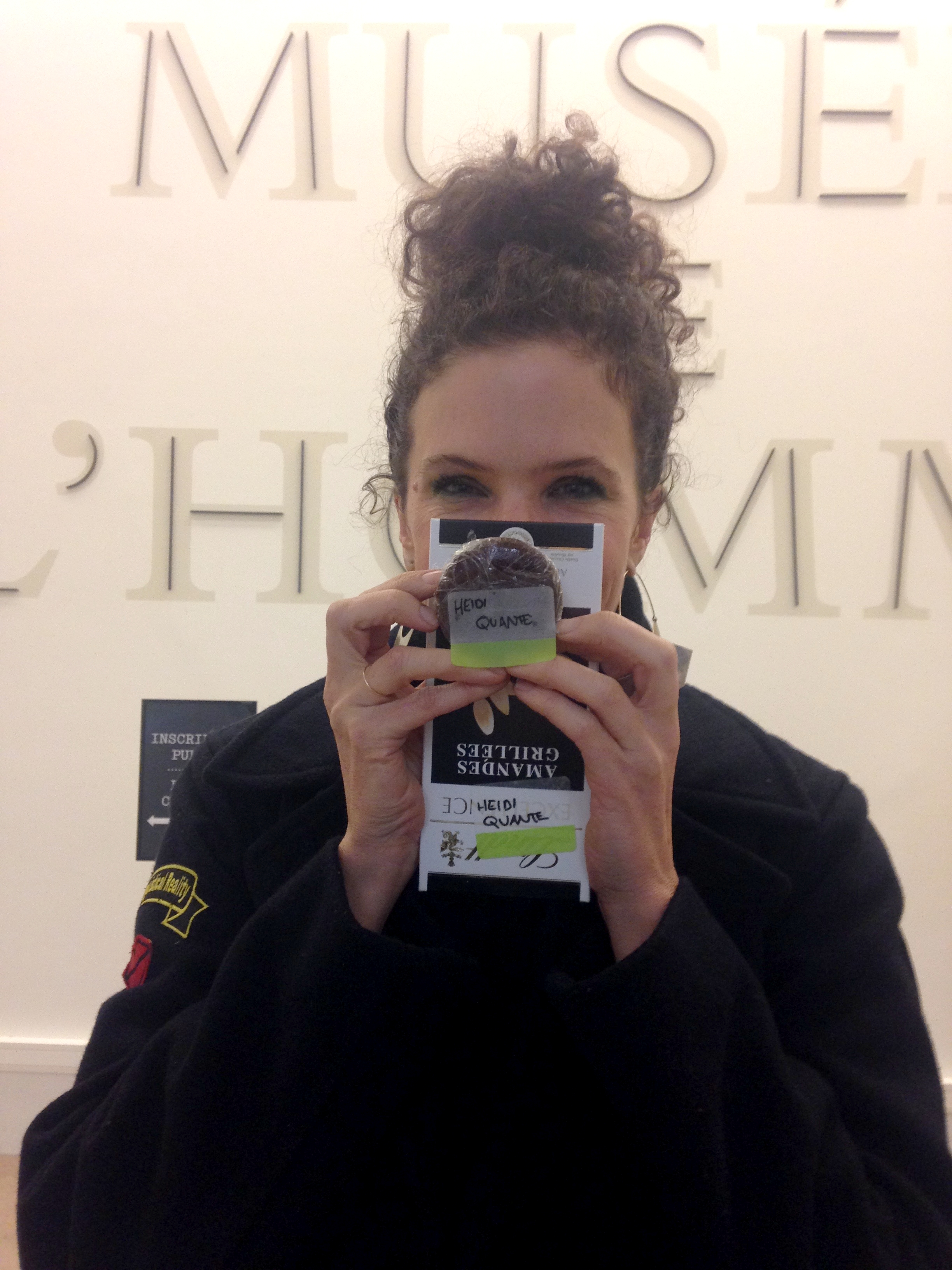 Heidi Quante, Mobile Academy Berlin at Musée de l'Homme, Paris 2015.